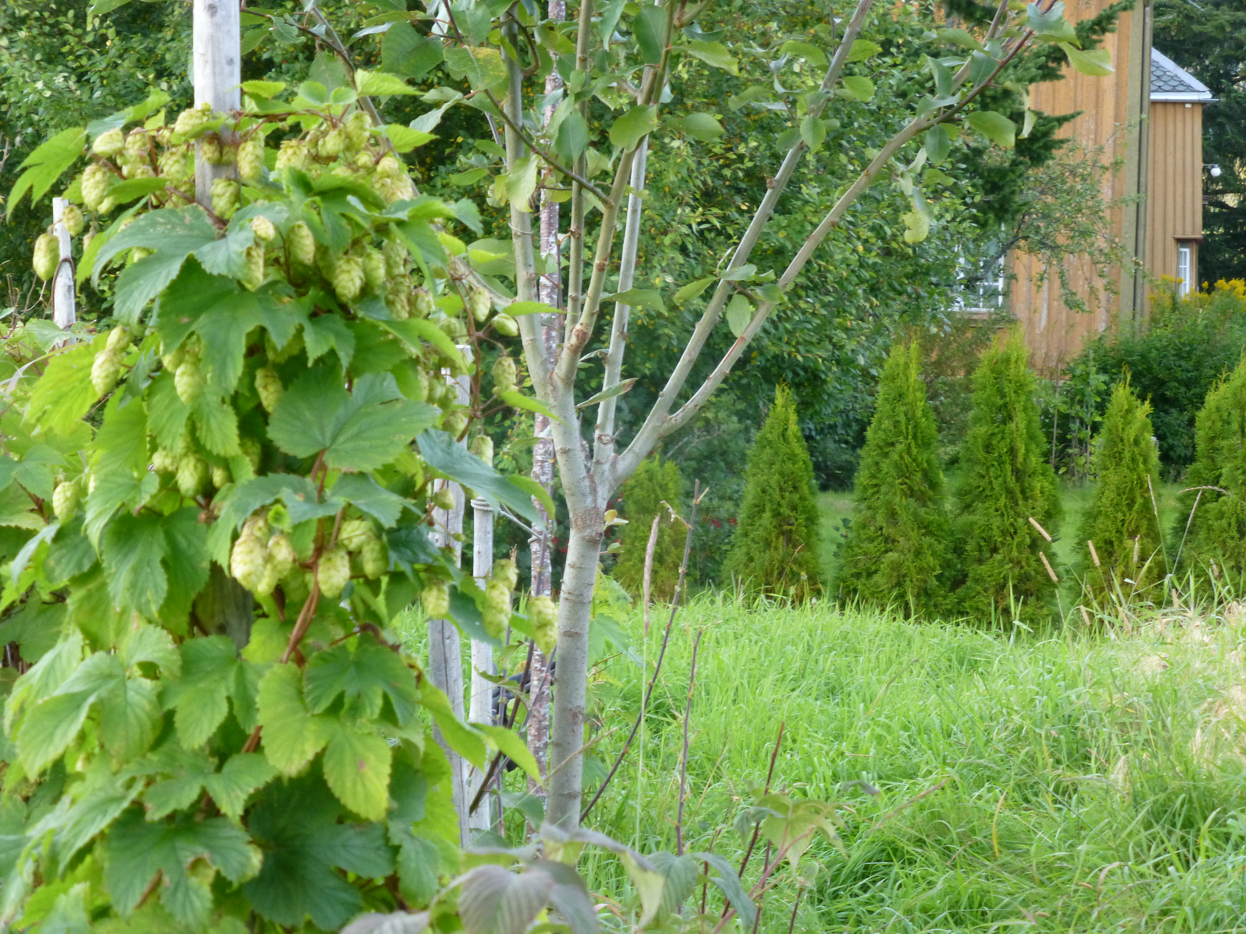 A glimpse of the old hop garden at Gjesvål in Orkdal, Norway. Gjesvål is a farm with a protected main building from 1773.